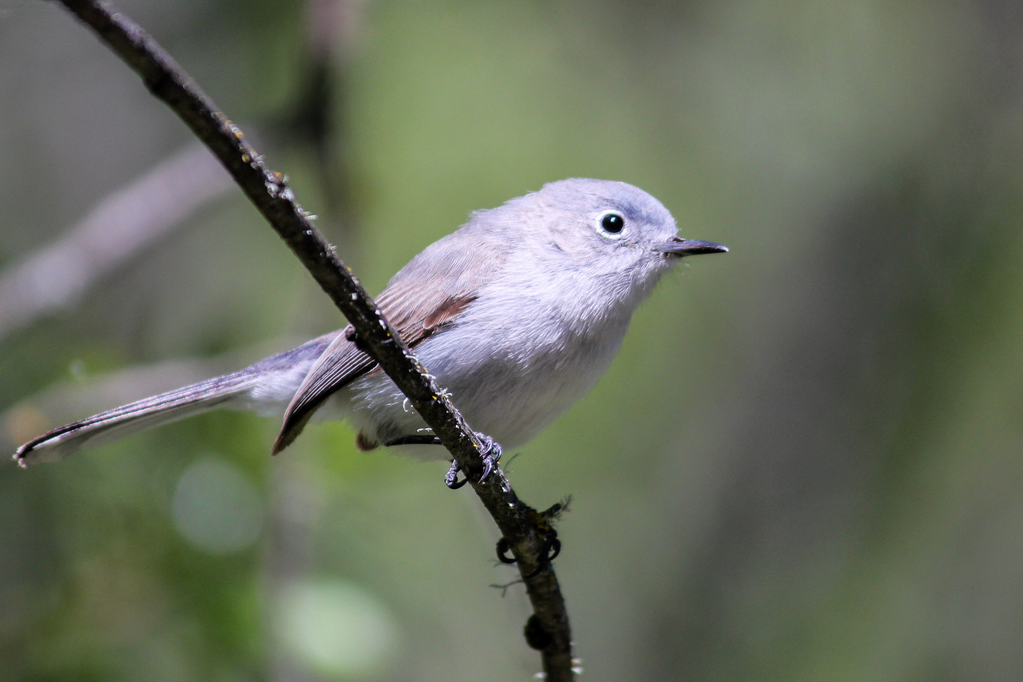 Blue-gray Gnatcatcher in Arastradero Open Space Preserve, Palo Alto, CA